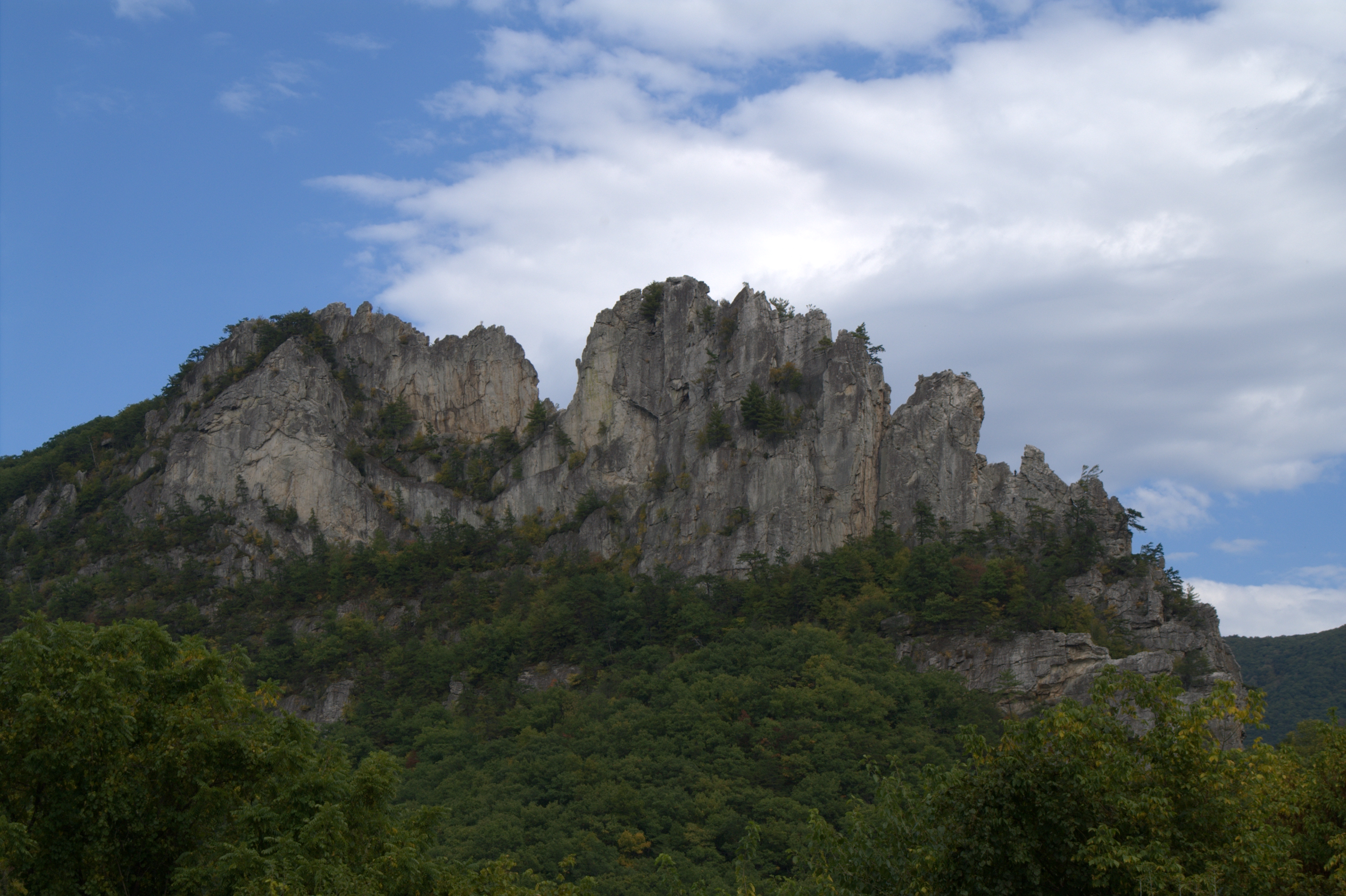 View of Seneca Rocks from the parking next to the Seneca Rocks Discovery Center in Monongahela National Forest, West Virginia, USA. A viewing platform can be seen in the upper left corner of the picture, at the edge of the rocks. The platform can be reached from the discovery center via a 1.3 mile (one way) hiking trail.